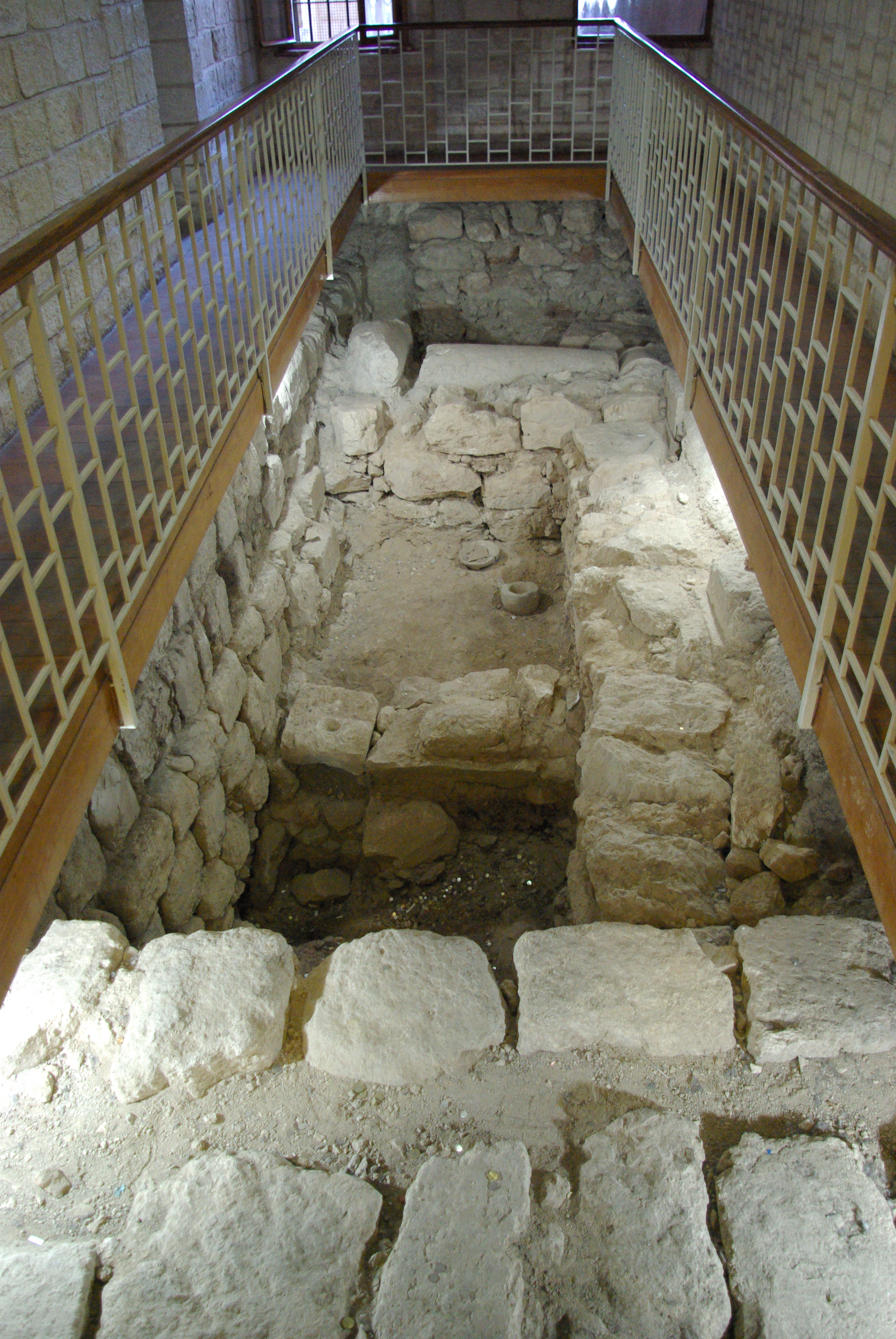 Side room of the "Wedding church"